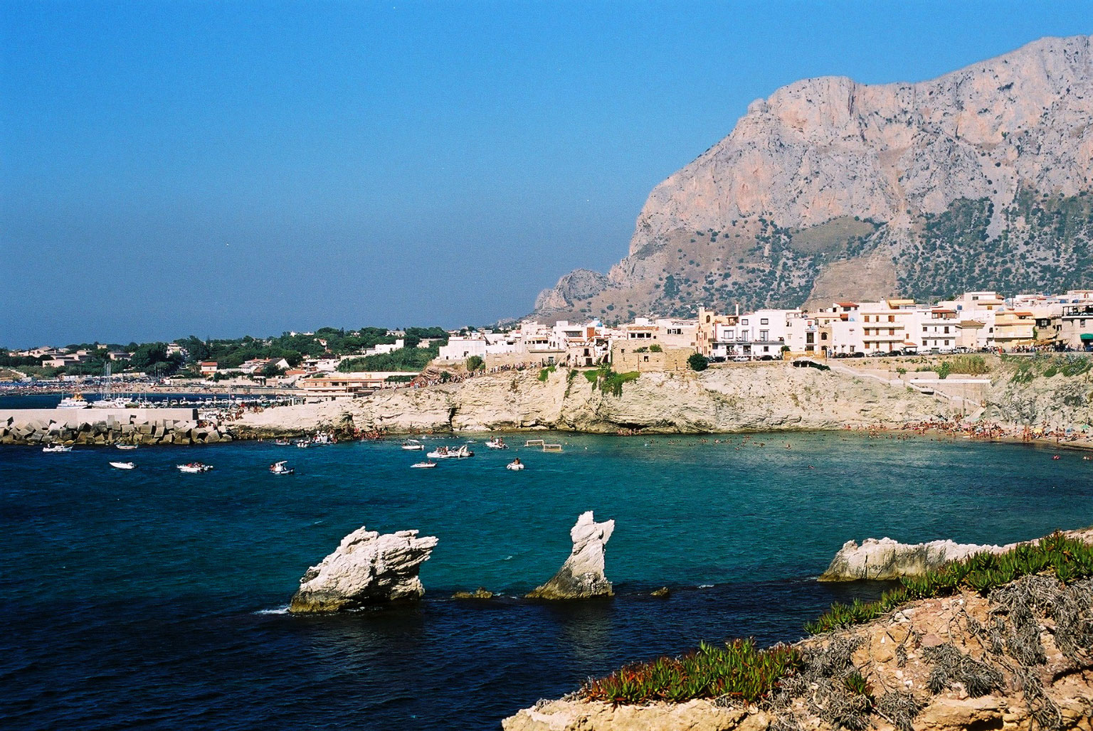 Terrasini Panoramic view of the seaside